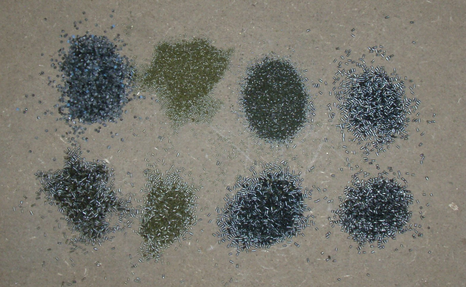 Ammunition handloading powder samples